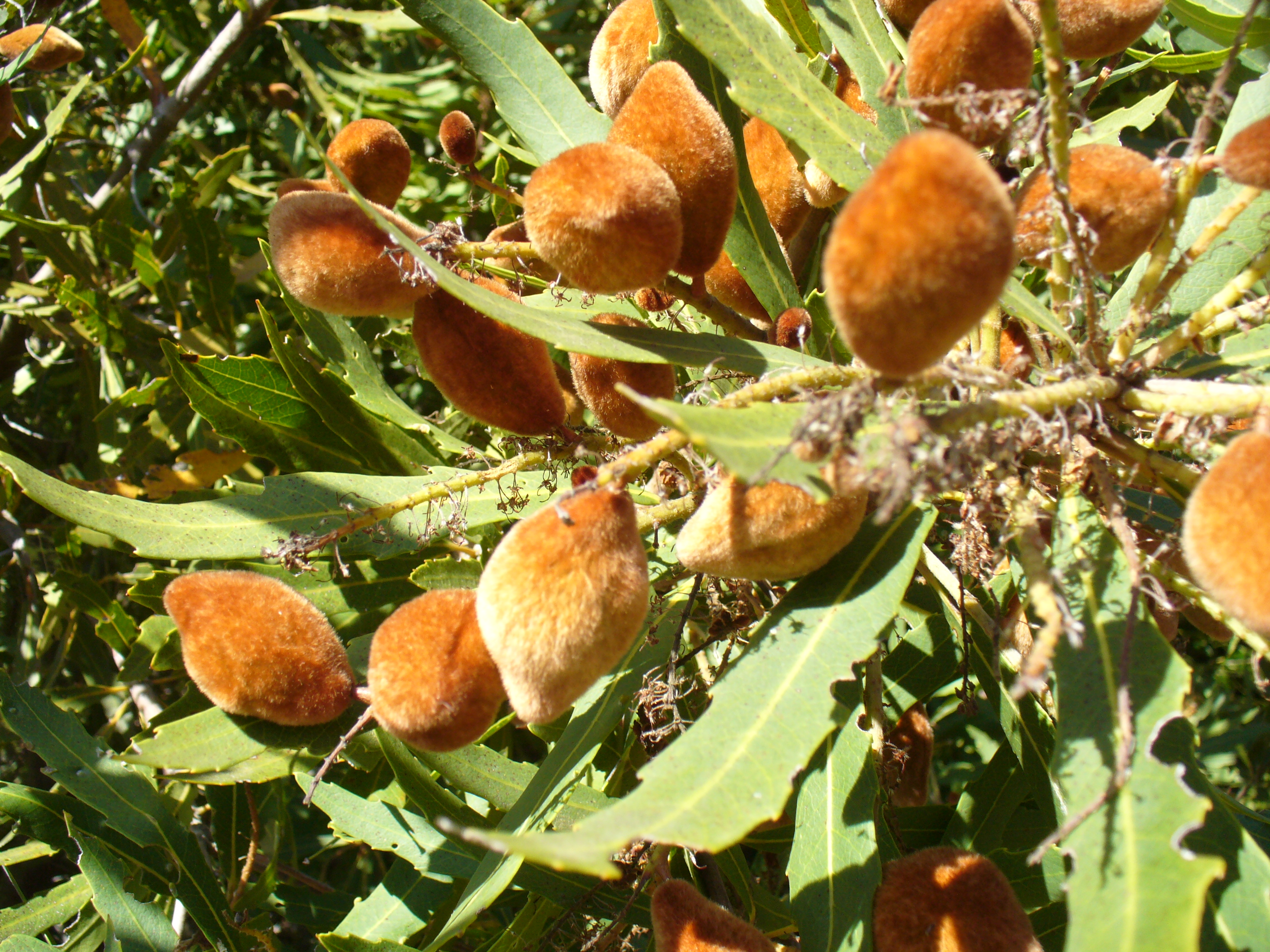 Wild Almond seed pod